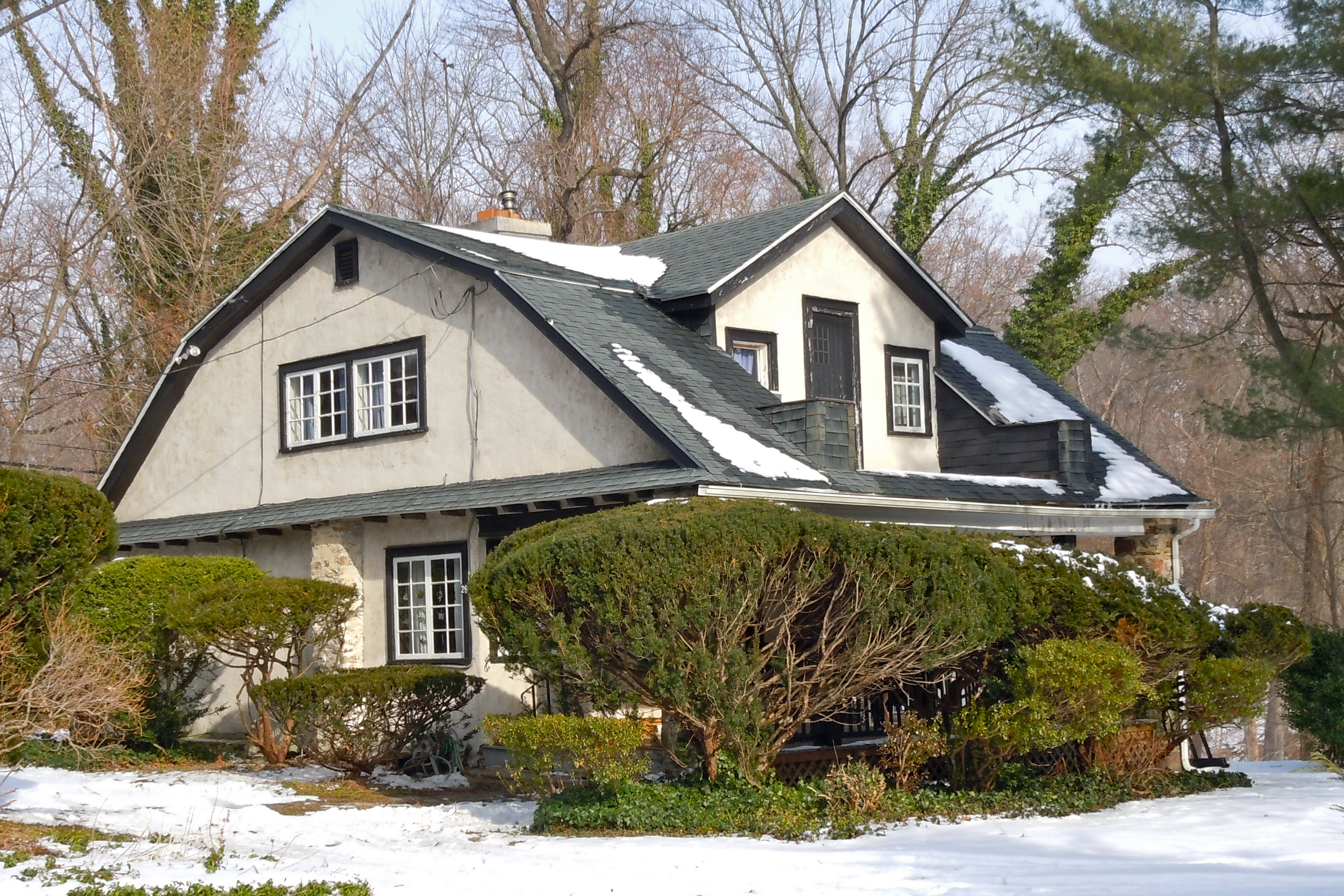 "House of the Democrat" designed by Will Price on Price's Lane in the Rose Valley Historic District (on the NRHP since July 19, 2010) The HD is roughly bounded by Ridley Creek, Woodward Rd., Providence and Brookhaven Rds. and Todmorden Ln. within Rose Valley Borough, Pennsylvania. This design was published by Price in a popular magazine as being inexpensive, yet fulfilling the needs of the workingman/middle class, then he built it in his "experiment" Rose Valley.